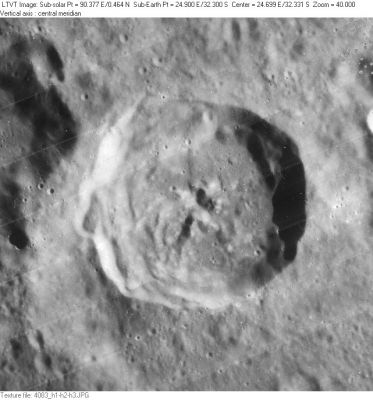 Lindenau lunar crater - Lunar Orbiter IV image LO-IV-083H